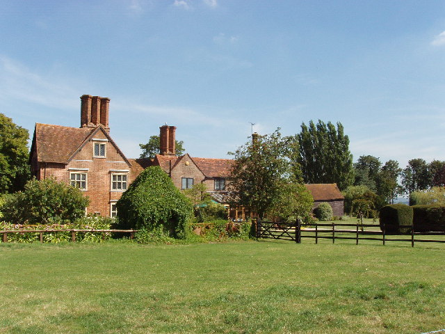 Waldridge Manor. Taken from the footpath which crosses to the south of the house